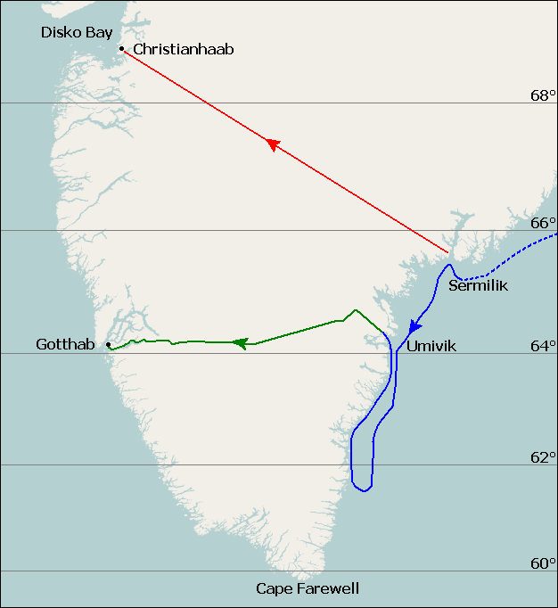 Map of Fridtjof Nansen's 1888 route across Greenland, the first crossing of the island. Dotted line is the ship Jason's journey from Iceland to near Sermilik fjord (now known as Sermiligaaq), continuous blue line is the journey made by Nansen and his companions in two small boats trying to reach the coast. Planned journey from Sermilik northwest to Christianhaab (today known as Qasigiannguit). Nansen's actual journey across Greenland from Umivik fjord to Gothaab (today known as Nuuk).